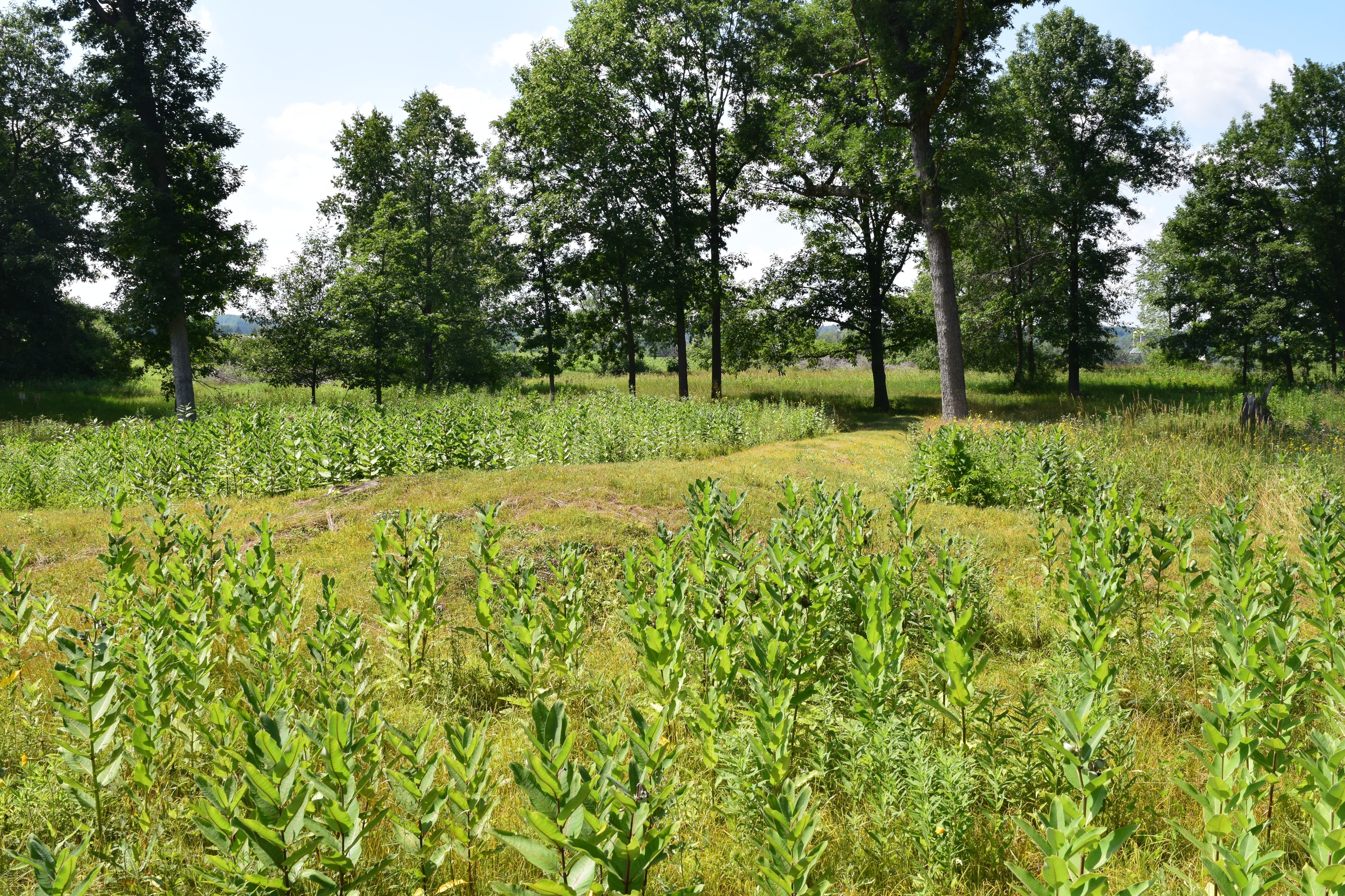 A mound in Lizard Mound County Park in Washington County, Wisconsin. The park is listed on the National Register of Historic Places.